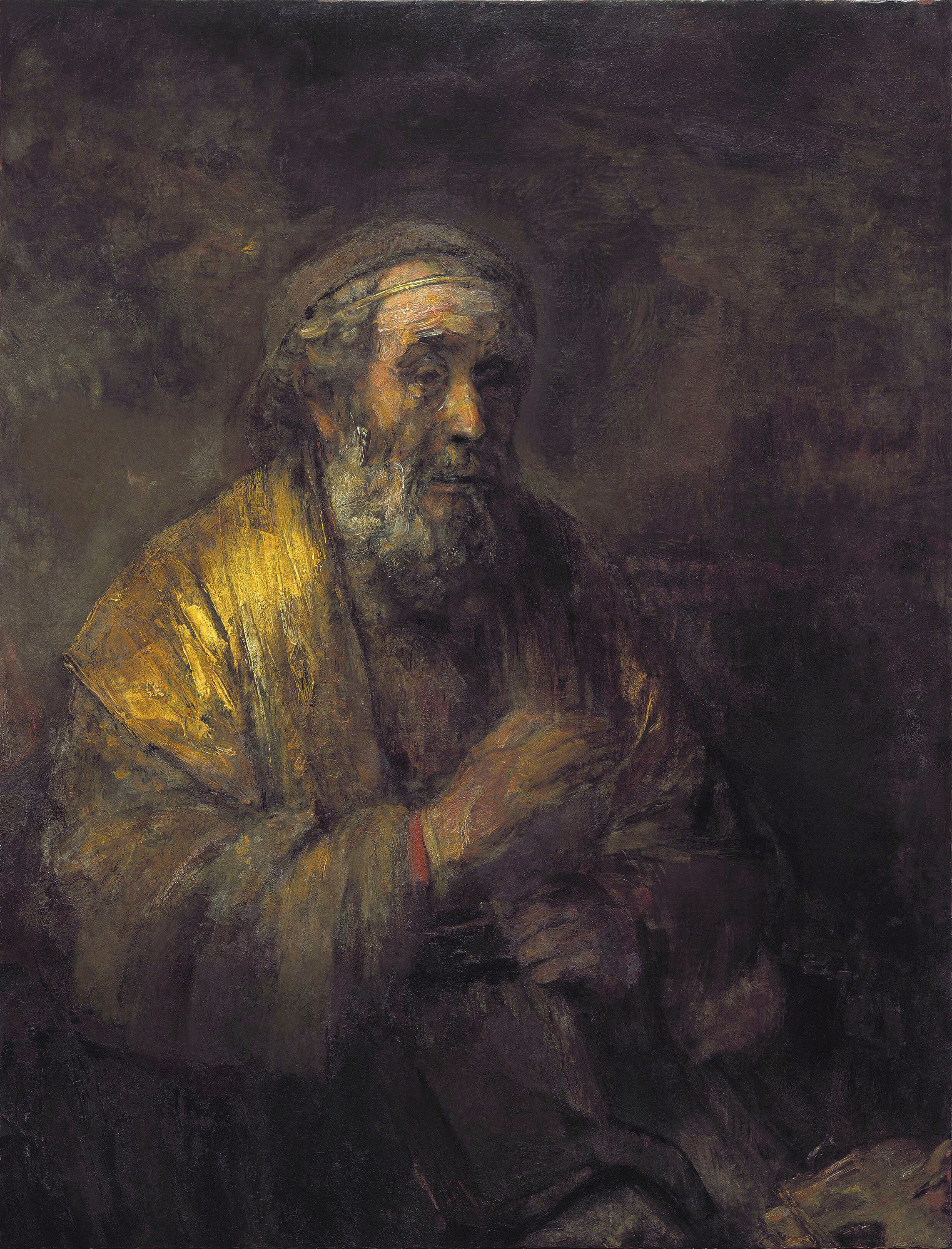 One of two surviving painting of a series of seven by Rembrandt, Guercino, Matia Preti, Salvator Rosa, and Giacinto Brandi. Parts were removed from all four sides as a result of fire damage, following an earthquake that struck Antonio Ruffo's palace in Messina in 1783. Only two fingers remained of the pupils that were present in the complete painting.